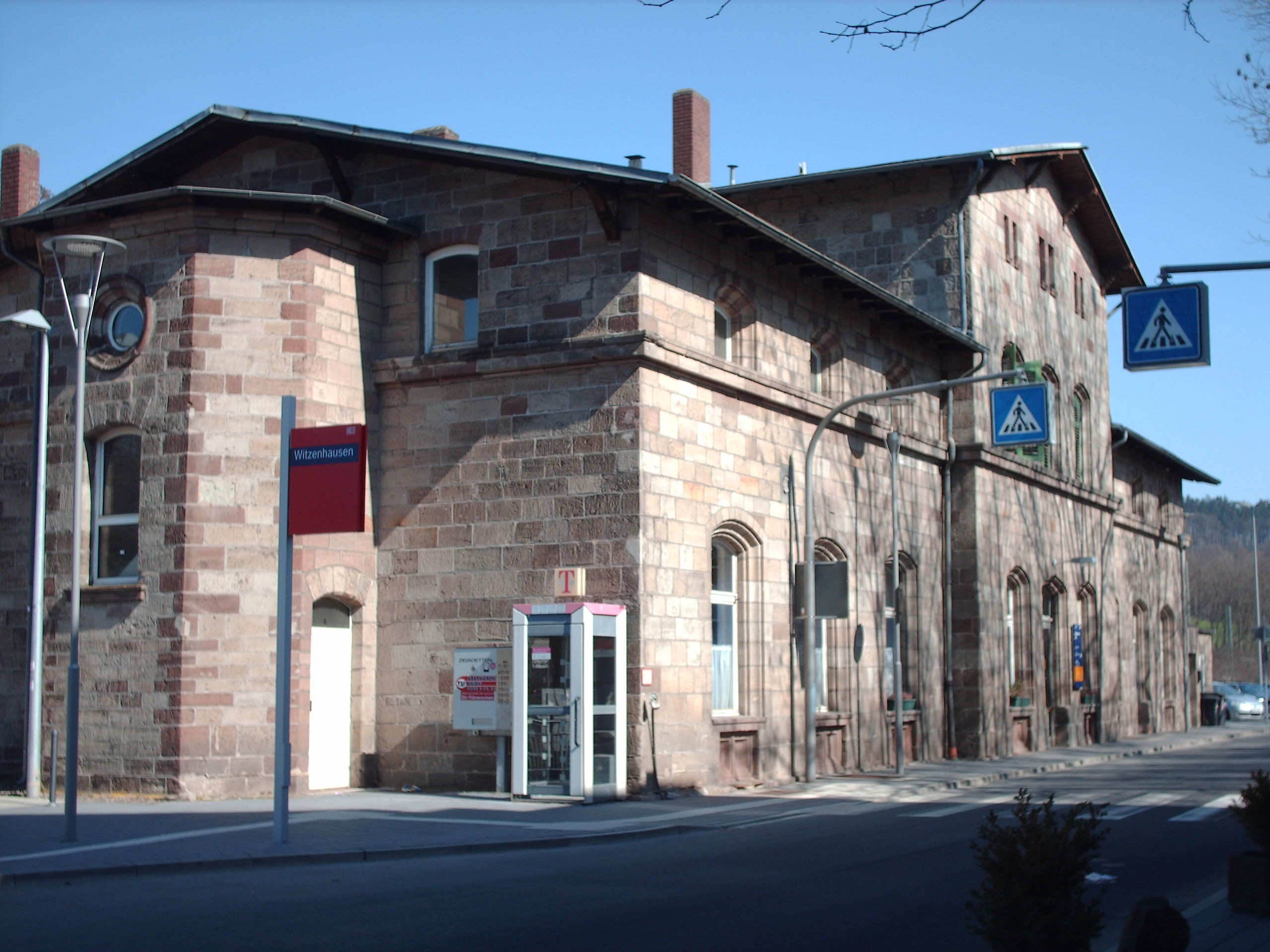 Witzenhausen Nord station, Witzenhausen, Germany check usage